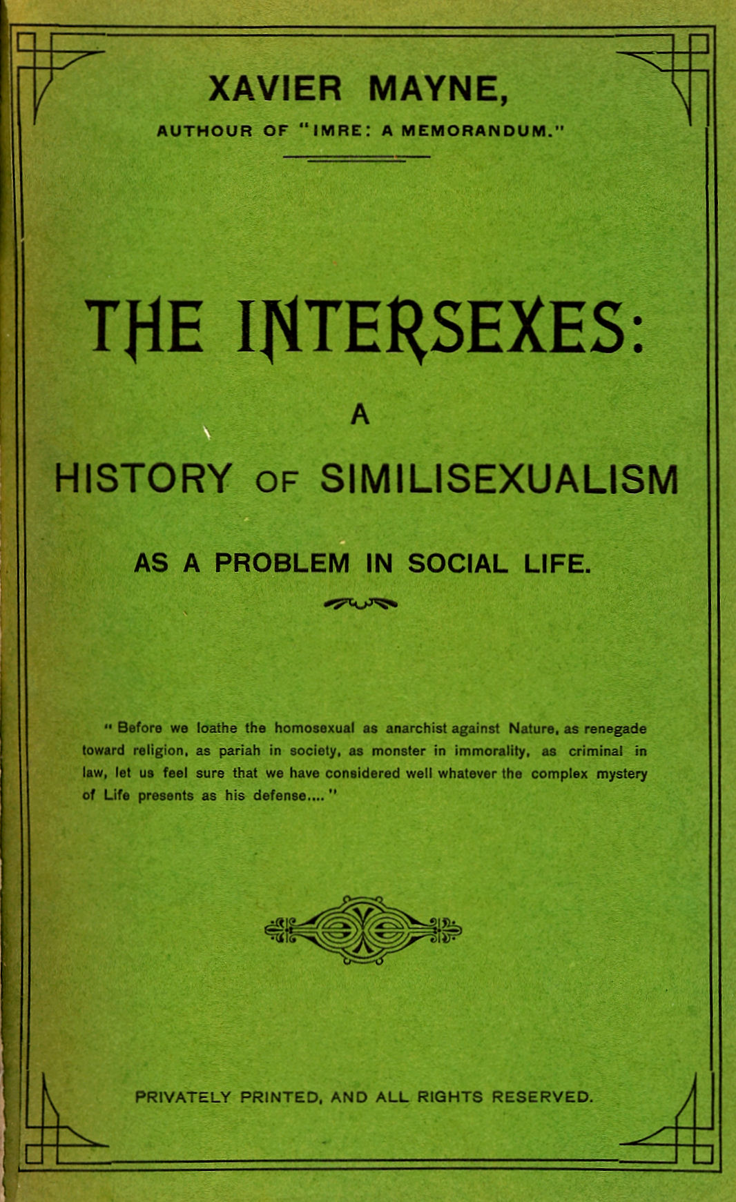 Edward Irenaeus Prime-Stevenson.